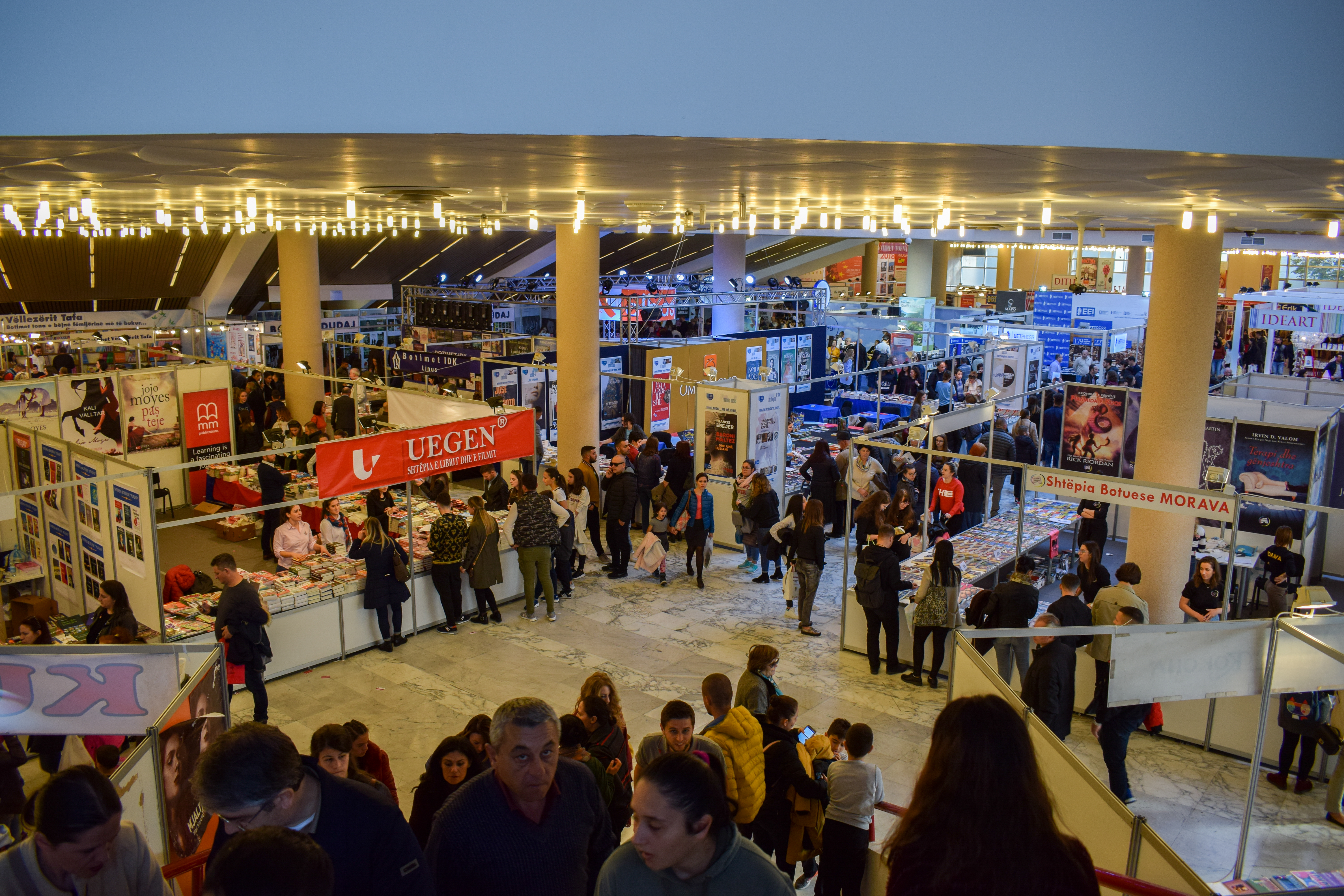 Book fair, Tirana